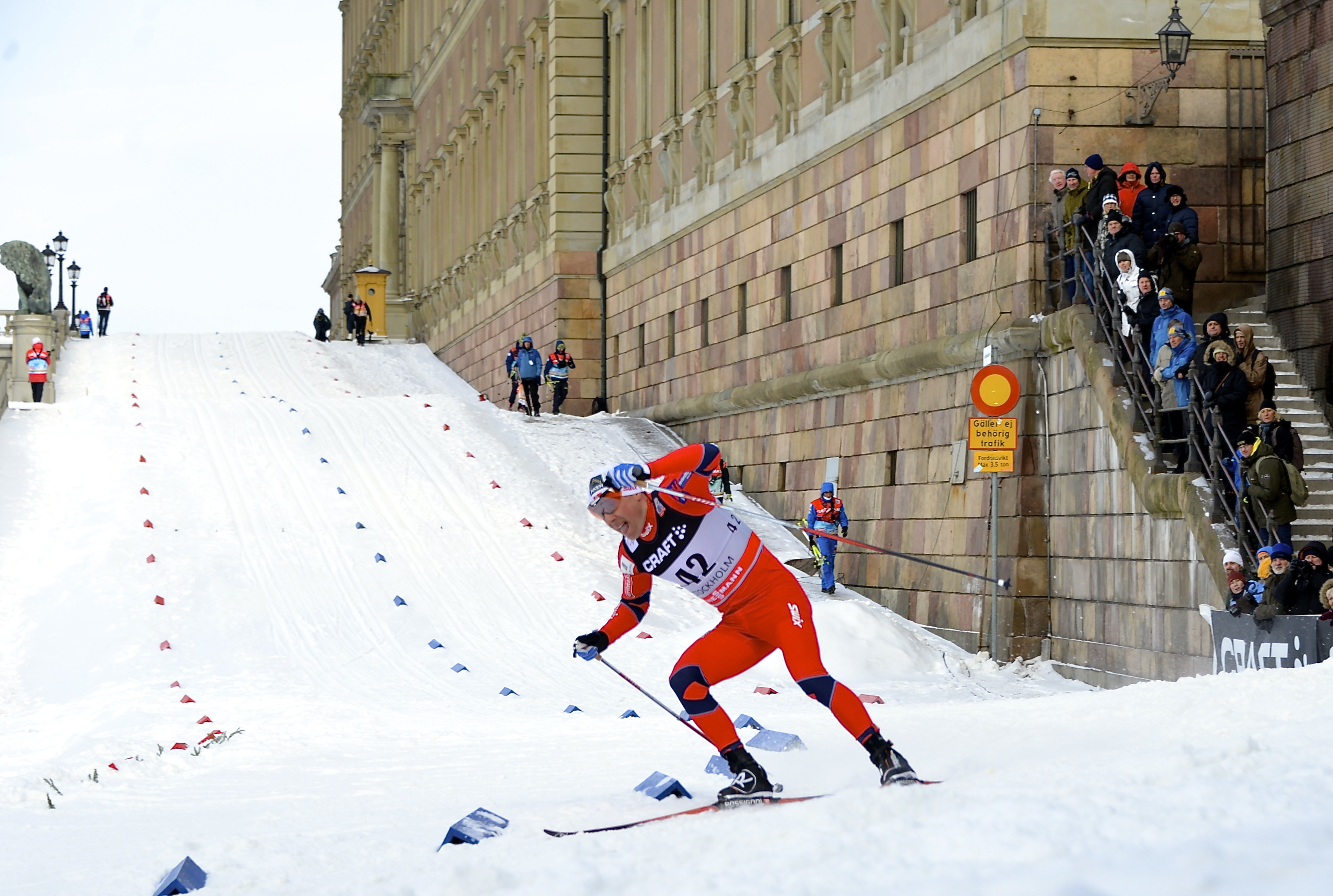 Eldar Rønning at Royal Palace Sprint in Stockholm March 20, 2013